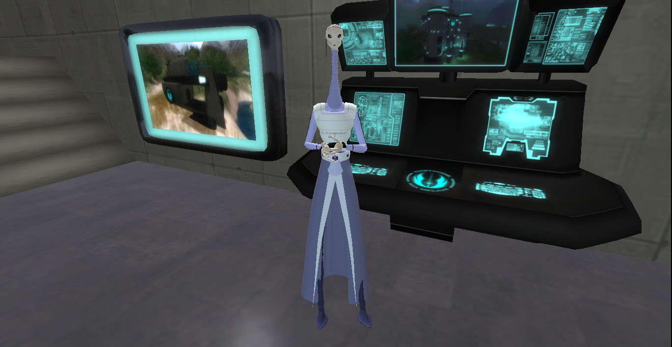 A female kaminoan, a fictional species from the Star Wars franchise. The picture is photographed in Second Life.